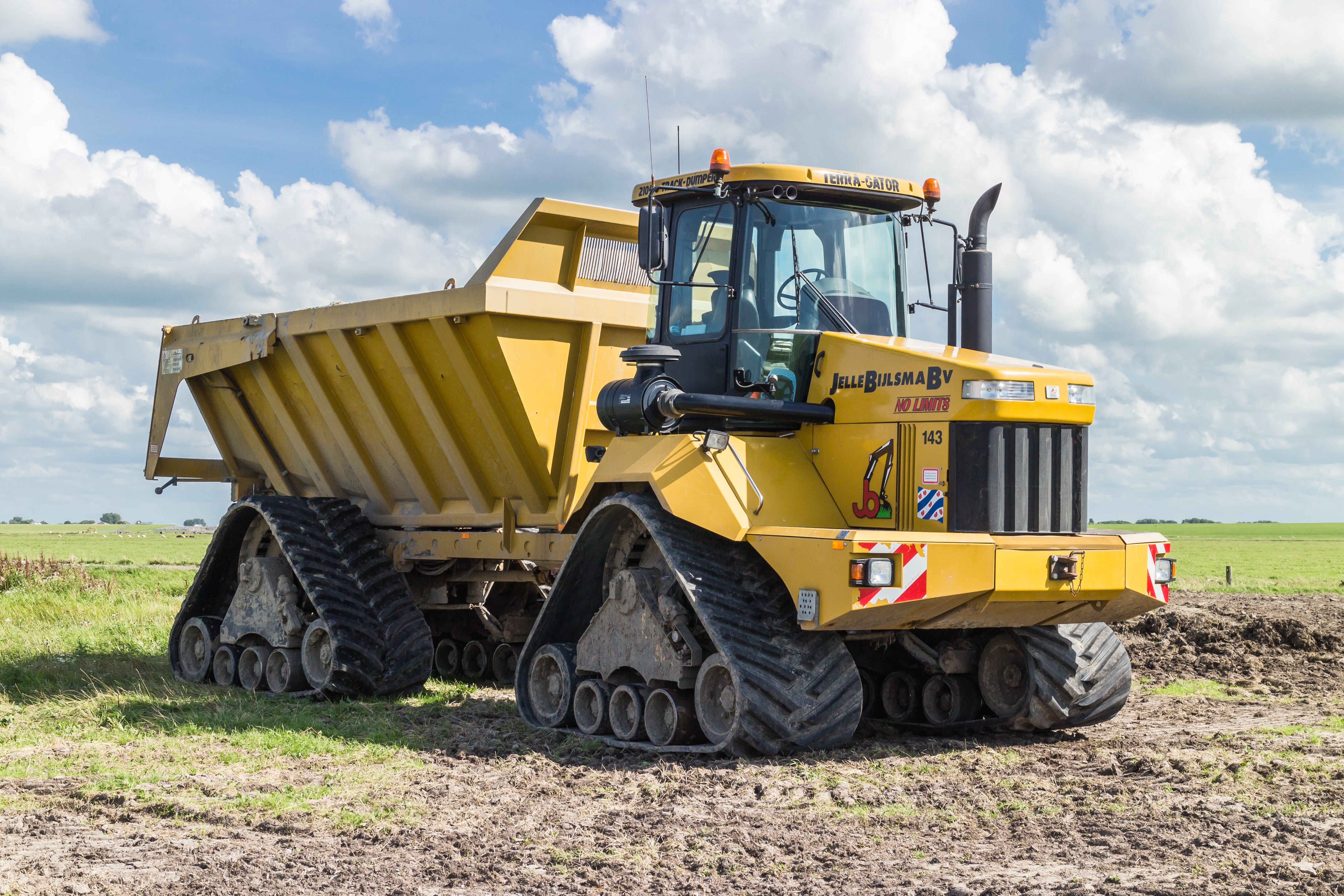 Special vehicles are used for maintenance in the area. (Terra Gator 2104 Track Dumper) Location: Noarderleech. Noard Friesland Bûtendyks is a unique nature of It Fryske Gea. It consists of summer polders, drink dobben and salt marshes. For many birds an ideal habitat.